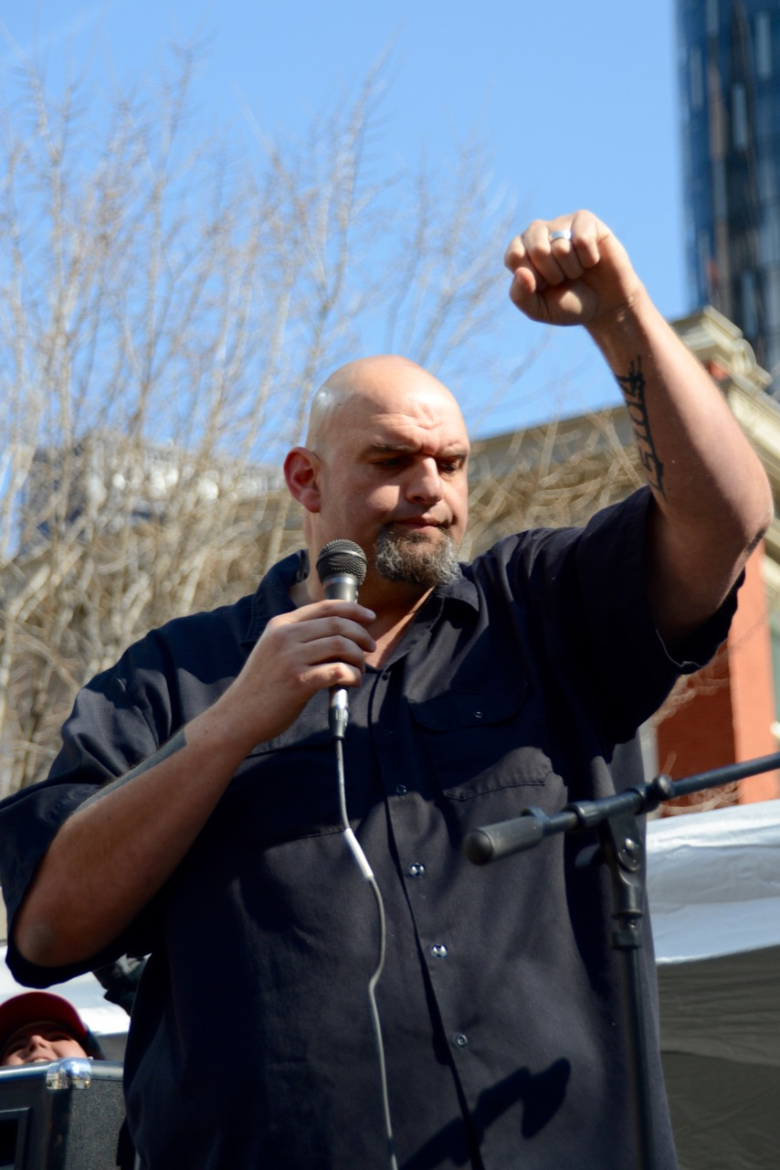 John Fetterman for senator